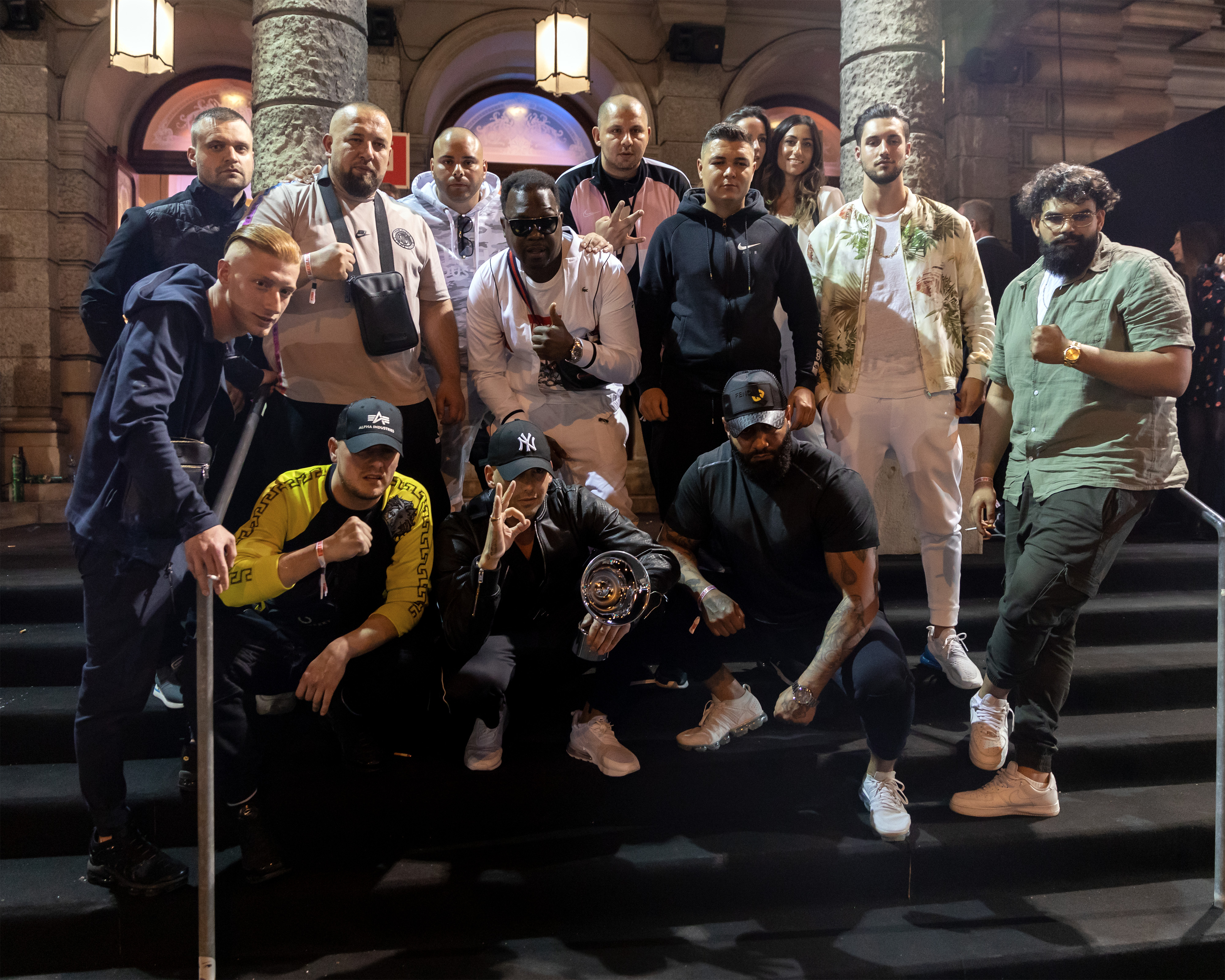 RAF Camora at the Amadeus Austrian Music Award 2019 at Volkstheater in Vienna.